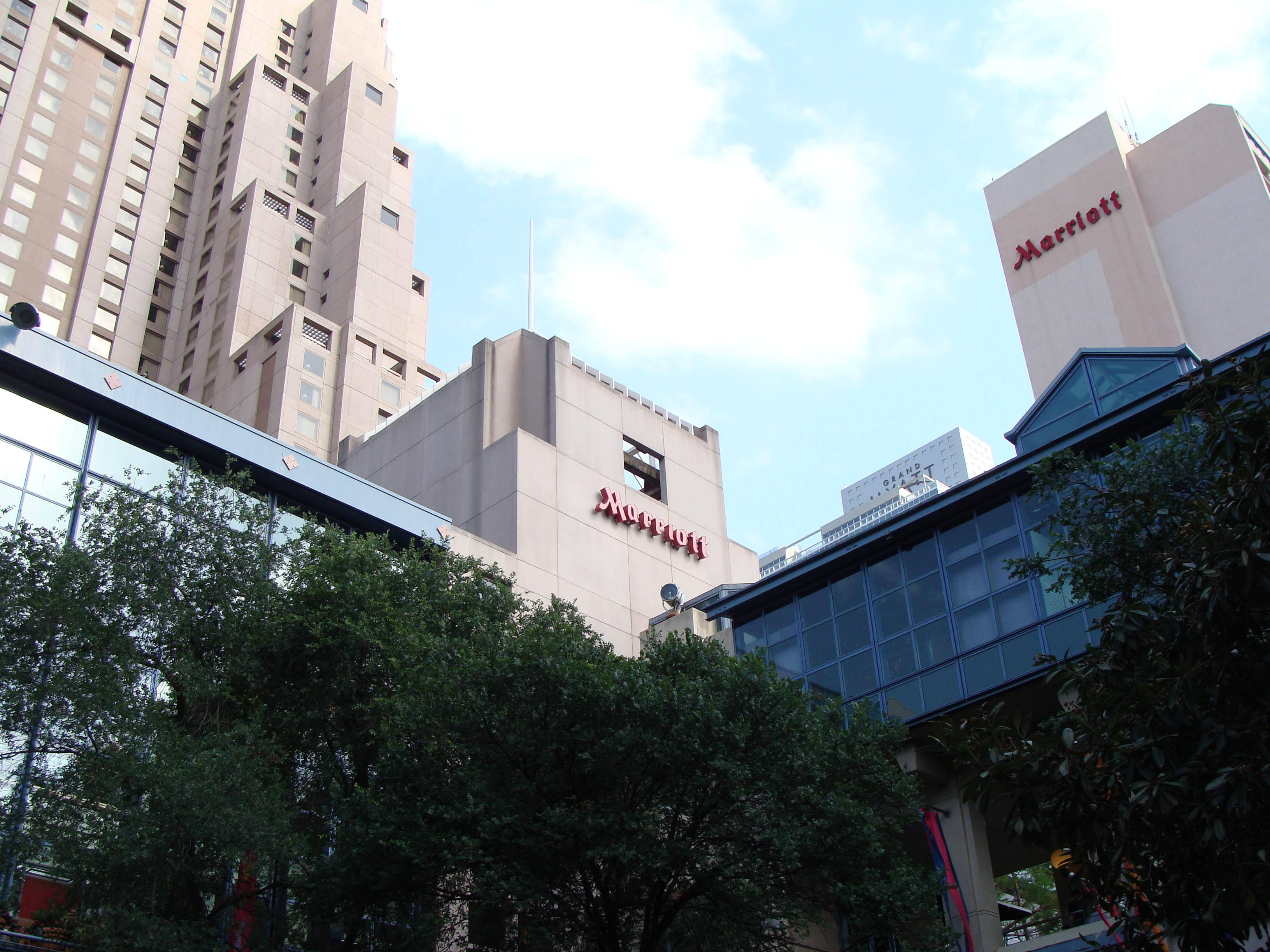 The Rivercenter, Riverwalk, San Antonio, looking up at the Marriot. San Antonio, TX